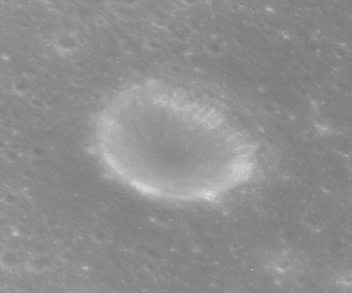 Oblique view of Menzel crater, facing south, on the moon.